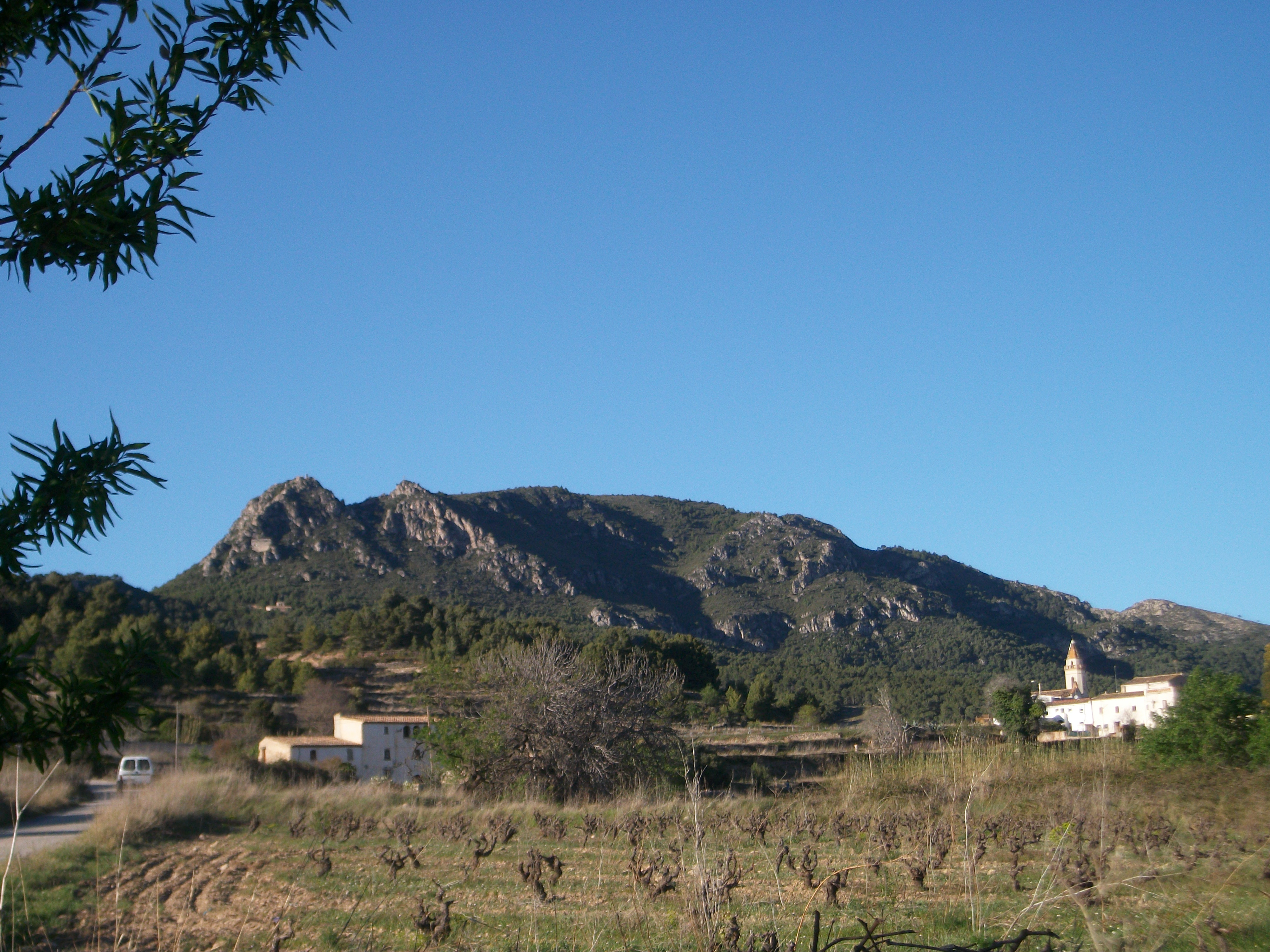 Montmell Range from la Joncosa de Montmell